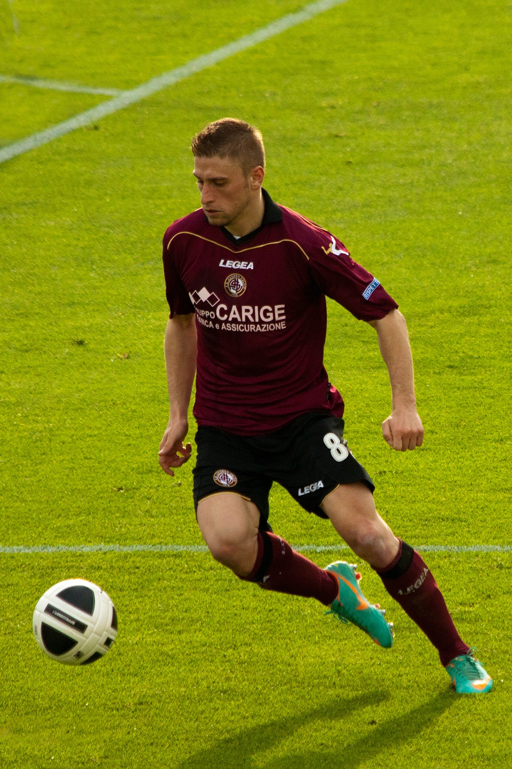 The Italian player Federico Dionisi with the A.S.Livorno shirt in the 2012/2013 Championship.